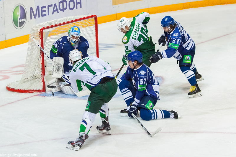 KHL game Amur Khabarovsk vs. Salavat Yulaev Ufa on October 23, 2012. Salavat Yulaev forward Ivan Baranka scores a goal. His teammate Alexander Stepanov is also on the pic. Amur players on the pic (LTR): Alexei Murygin, Alexander Osipov, Vyacheslav Litovchenko.